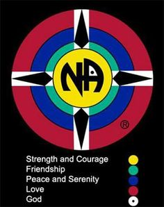 Explanation of The Group Logo *NOTE: The 4 points represent the points of a compass found on a map indicating that NA would one day be a world wide fellowship.